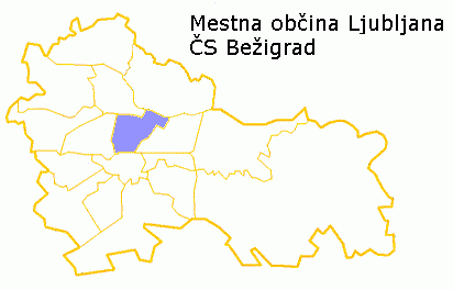 author: Navportus 18:45, 26 June 2007 (UTC) description: area of Bežigrad, quarter of Ljubljana